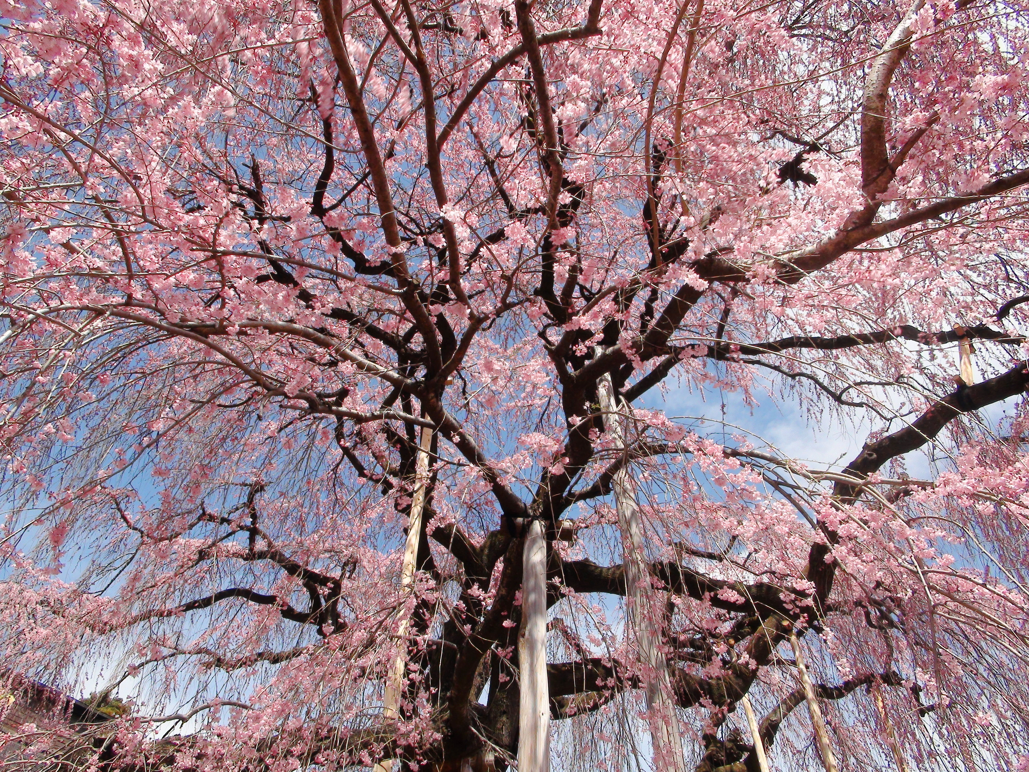 Look up at the Jiunji-Temple Prunus pendula tree from the bottom